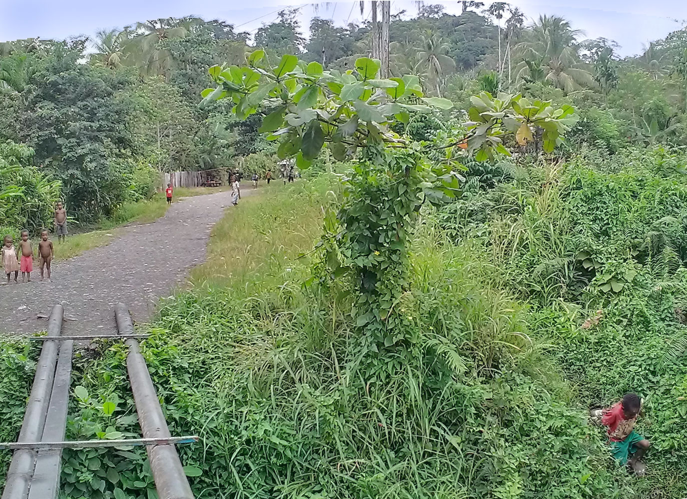 Improvised bridge on Mountain Cresent - Boundry / Atzera Settlements